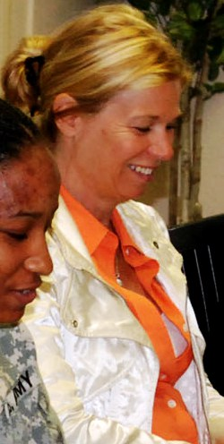 Sally Brown, wife of Mack Brown, head football coach of the University of Texas Longhorns, talks with members of the 4th Inf. Div. Wives Club during the Browns' visit to Fort Hood on April 29. Sally and Diane met with the Soldiers' spouses and discussed topics ranging from how the deployments affected living conditions at home to the services that were available to family members while their Soldier was deployed.